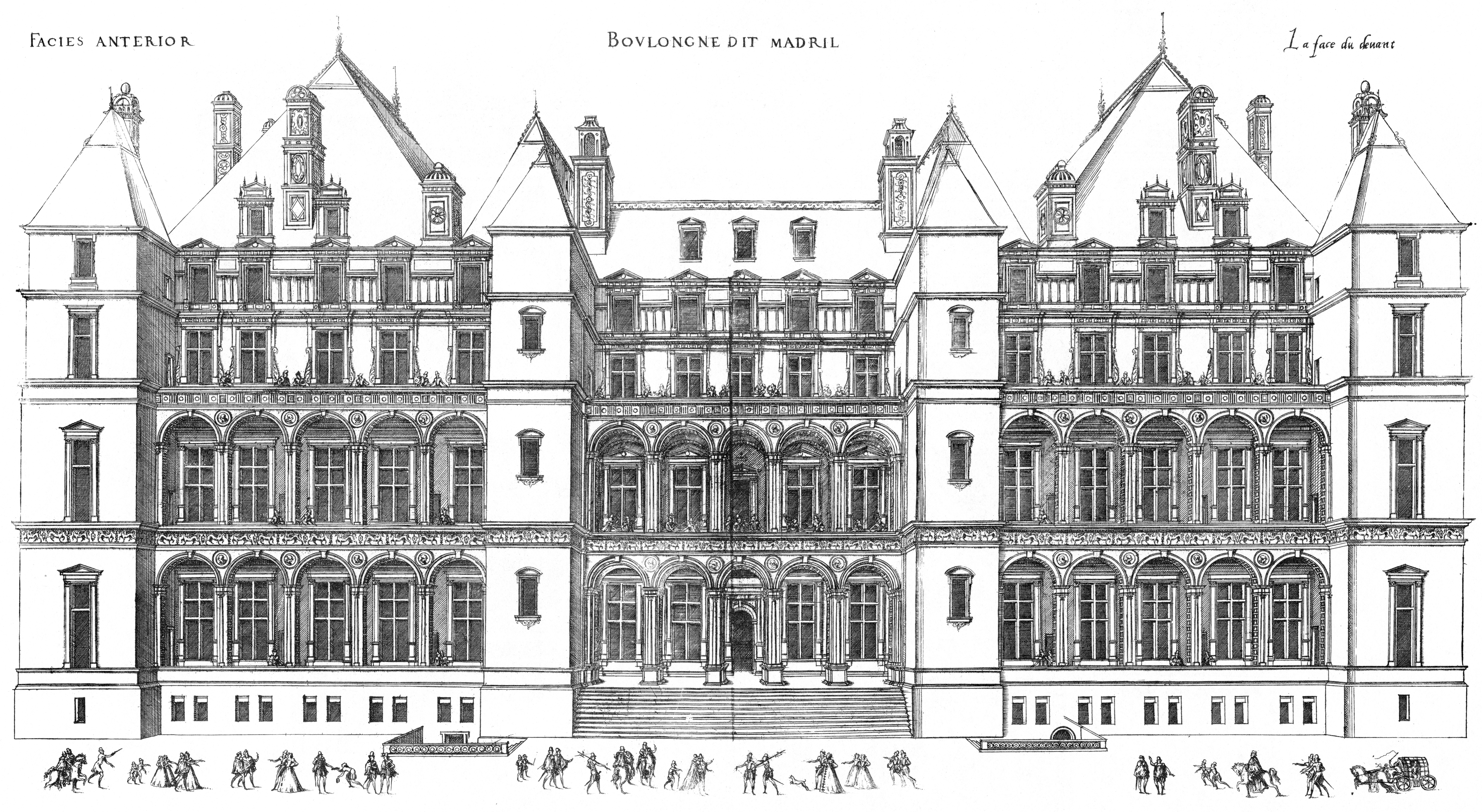 Engraving from Le premier volume des plus excellents Bastiments de France by Jacques I Androuet du Cerceau: elevation of the front facade of the Château de Madrid